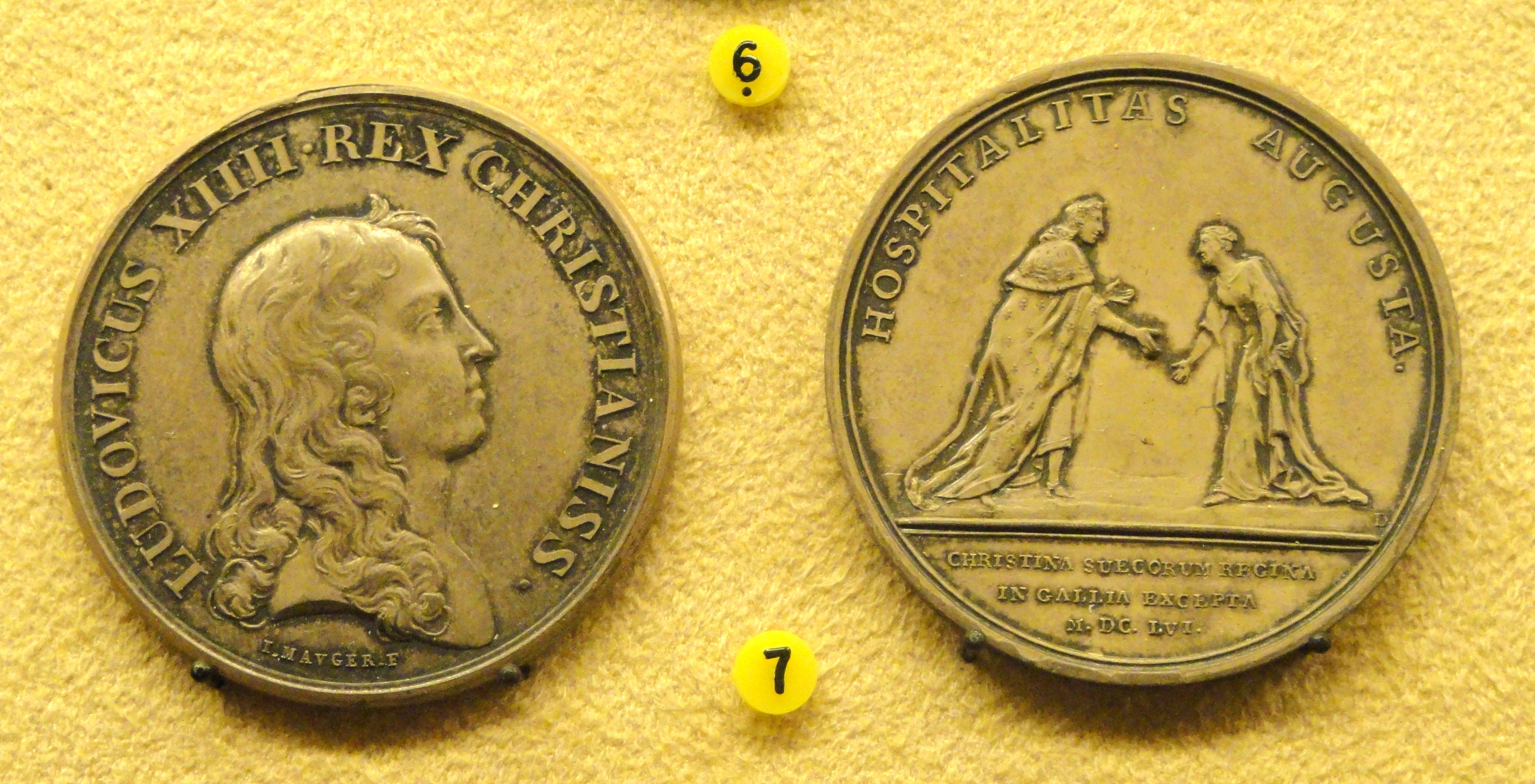 Coin / medal in the National Museum of Finland, Helsinki, Finland. This artwork is in the public domain because the artist(s) died more than 70 years ago.